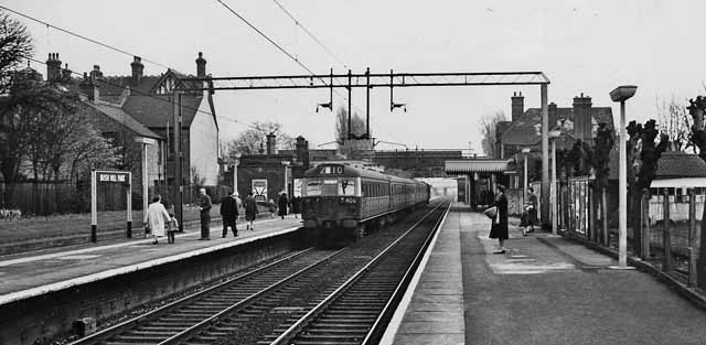 Bush Hill Park Station. View southwards, towards Seven Sisters and Liverpool St.; ex-Great Eastern, Liverpool St. - Seven Sisters - Enfield Town line, electrified 11/60. A London-bound EMU stands at the Up platform.